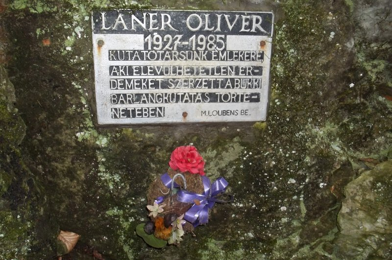 Commemorative plaque of Olivér Láner at the entrance of Láner Olivér Cave (Bükk Mountains, Miskolc)